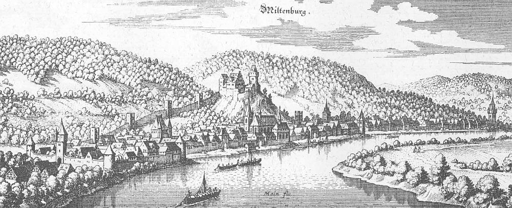 This is a scan of the historical document: Title: Miltenberg - Topographia Hassiae language: german